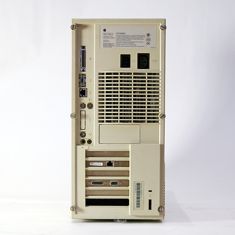 Rear view of an Apple PowerMac 9500/132 from 1995